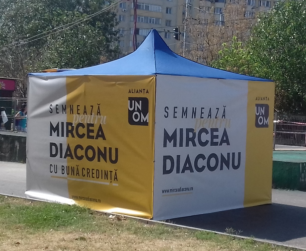 Mircea Diaconu campaign stand in Bucharest for the 2019 Presidential election